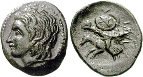 THESSALY, Larissa Kremaste. Circa 302-286 BC. Æ 17mm (5.60 g, 12h). Head of Achilles left / LA-RI, Thetis seated left on hippocamp, holding shield of Achilles with AX (=Achilles) monogram; no symbol to left.